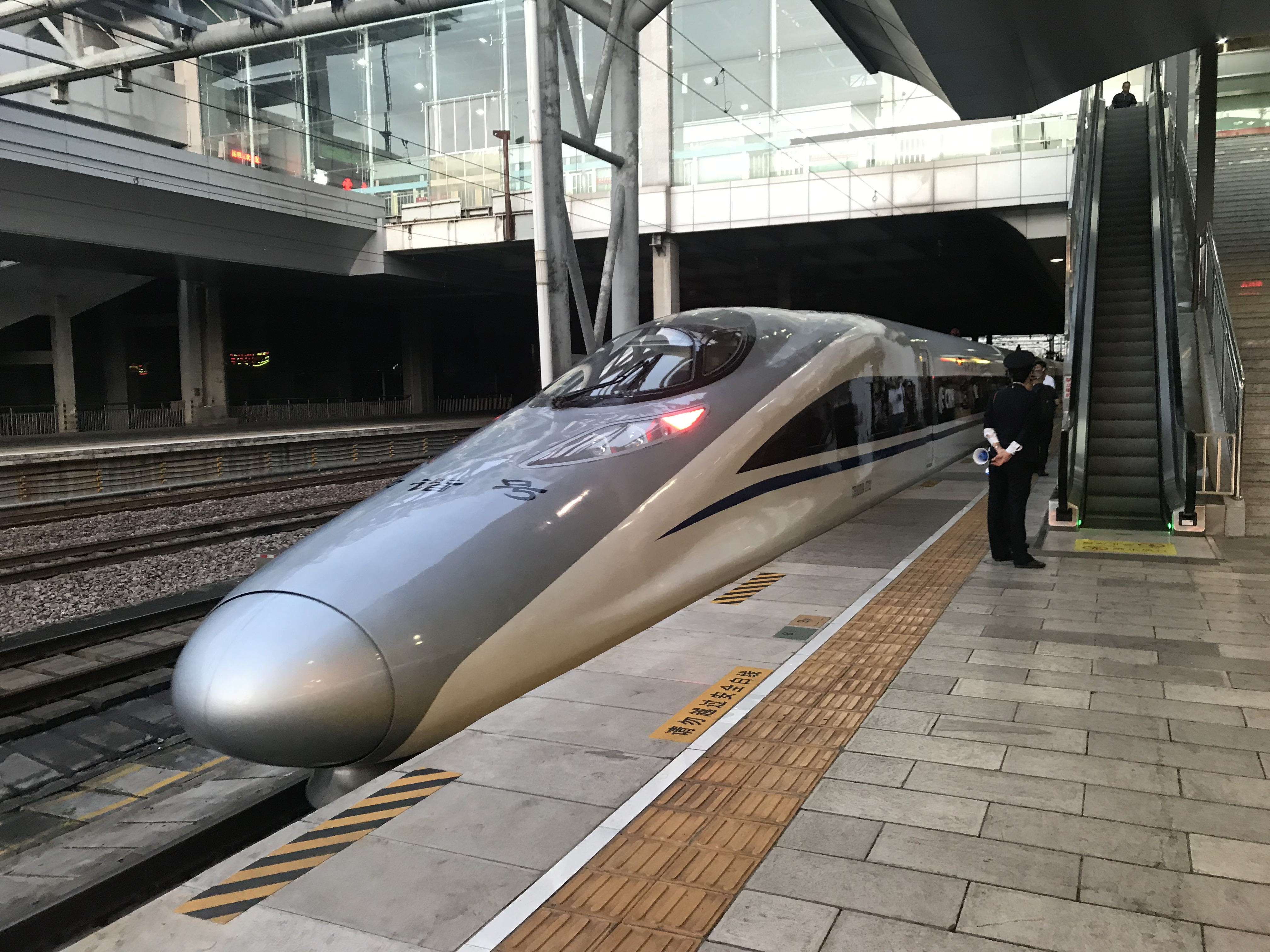 D9102 from Kunmingnan to Dali